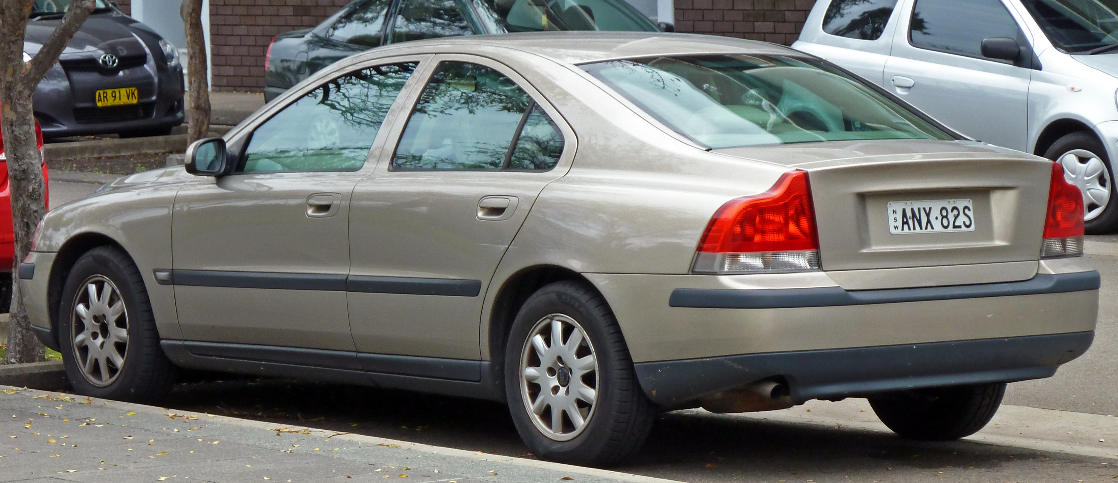 2000–2004 Volvo S60 sedan. Photographed in Zetland, New South Wales, Australia.